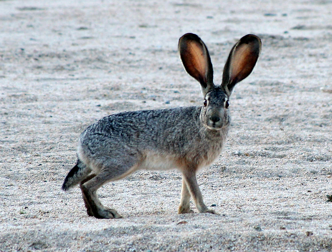 Photo of a black-tailed jackrabbit